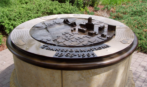 Model of Minneapolis river front area. There's one representing each period in the city's history. They are spread out in a park near the Federal Reserve building in Minneapolis. Taken in 2006.